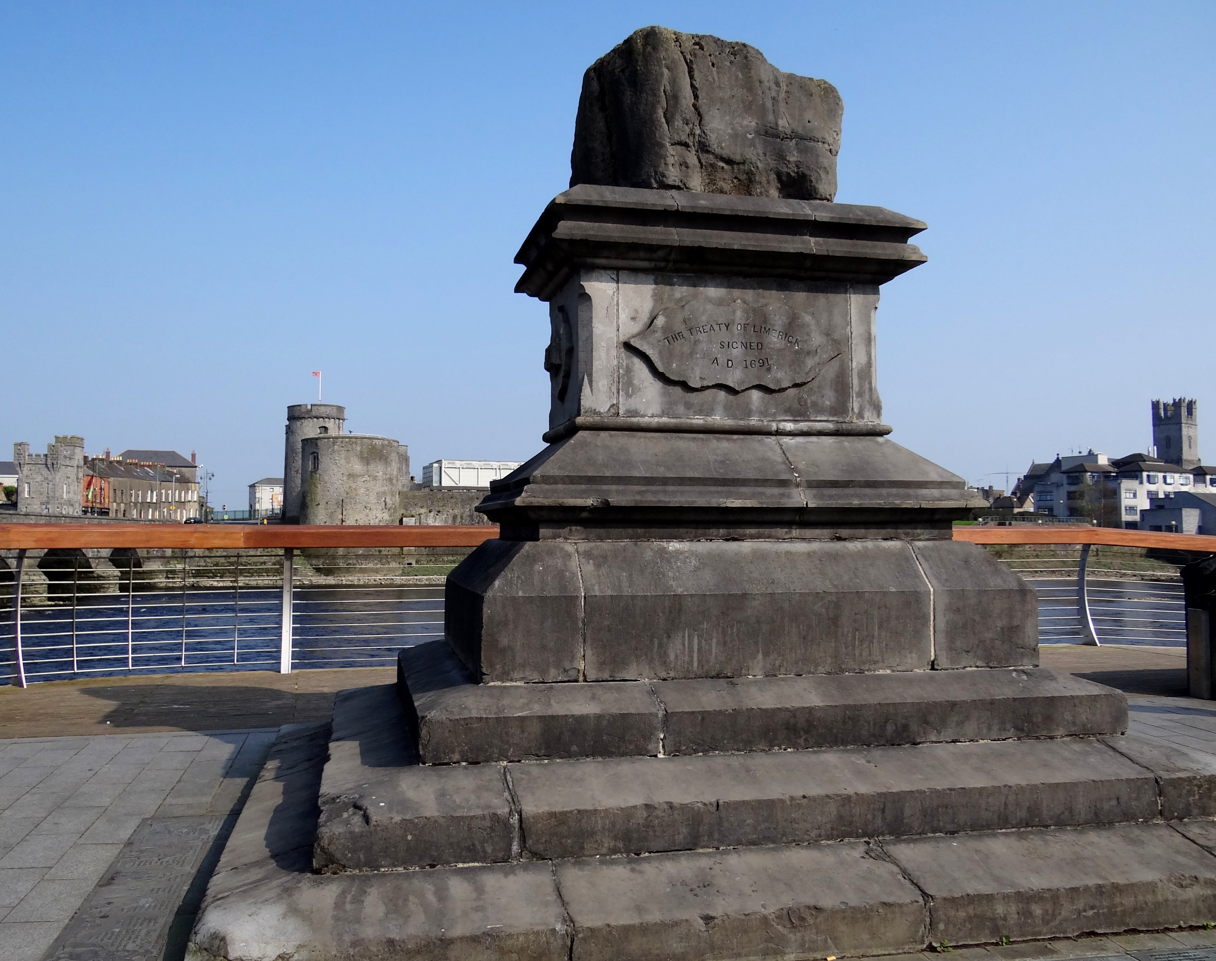 The Treaty Stone in Limerick City, Ireland. In the background you can see King John's Castle and part of the Thomand Bridge to the left of the stone, and the tower of St Mary's Cathedral in the right edge of the photo.